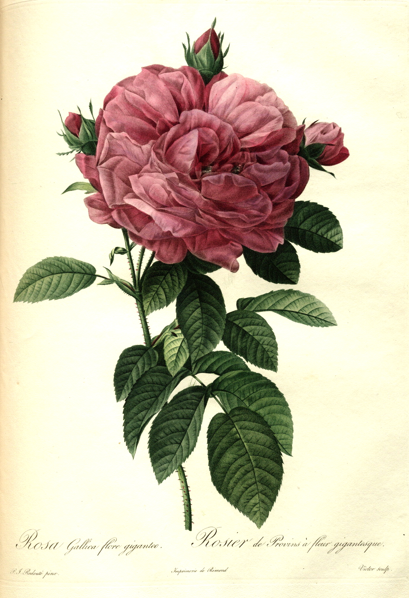 Rosa gallica flore giganteo, a painted engraving of a rose by Pierre-Joseph Redouté.